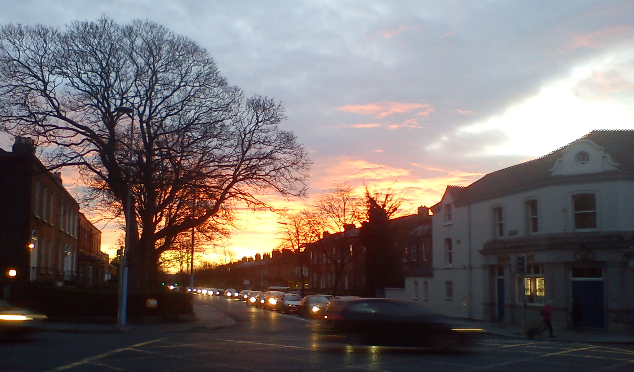 Clonliffe Road at its junction with Drumcondra Road, Dublin